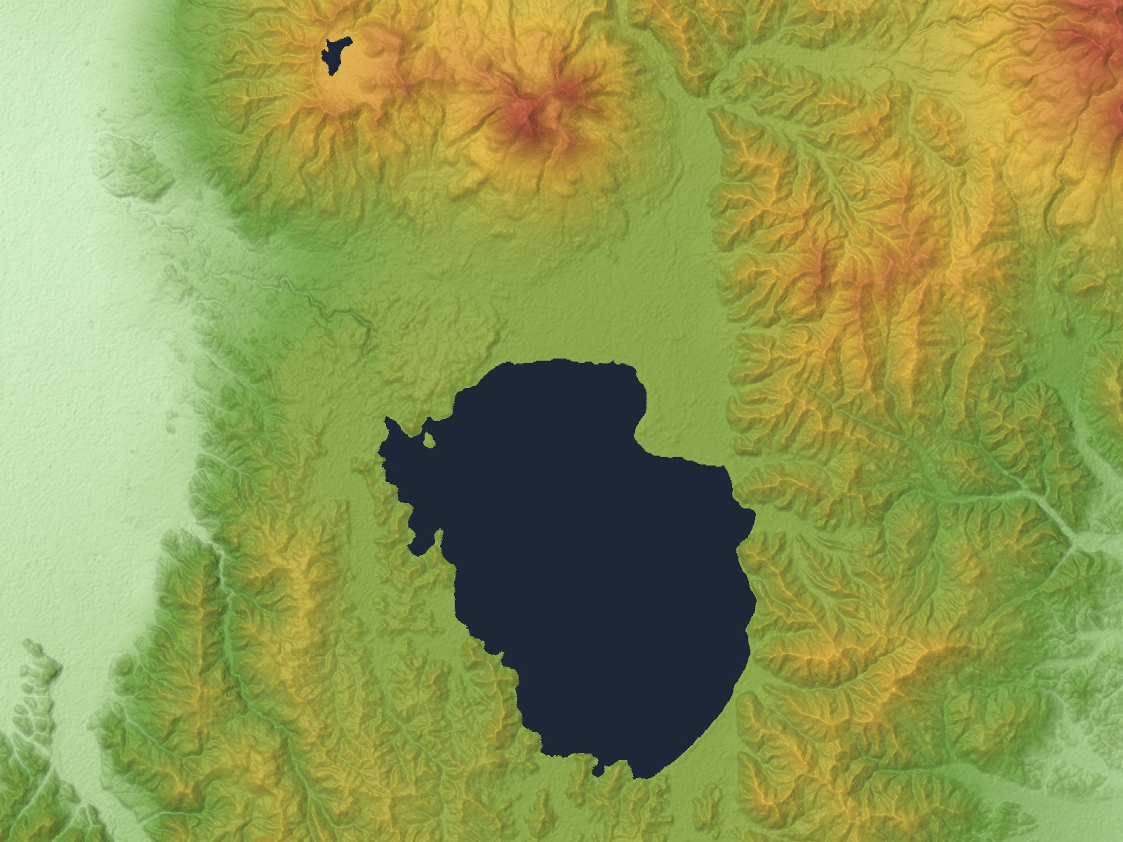 Around Lake Inawashiro in Fukushima Prefecture, Honshu, Japan.